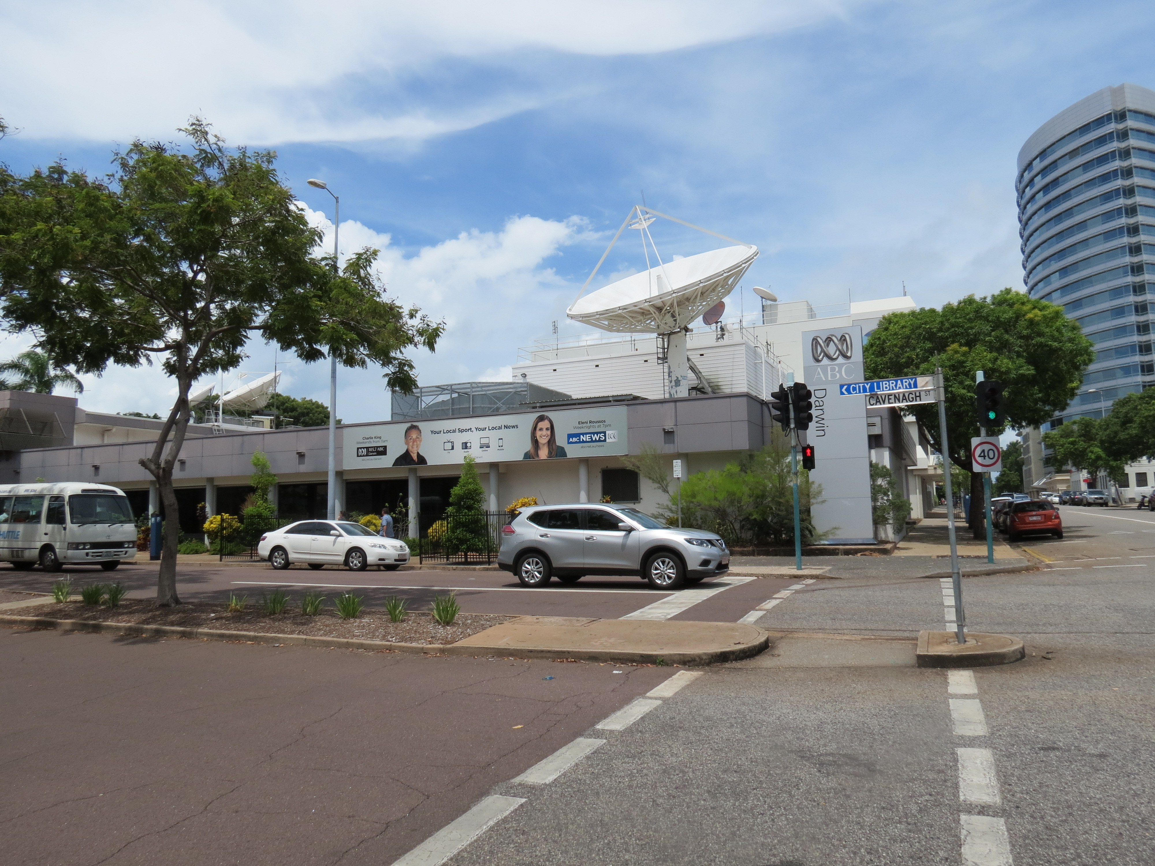 ABC Darwin studios on the corner of Cavenagh St and Bennett St.